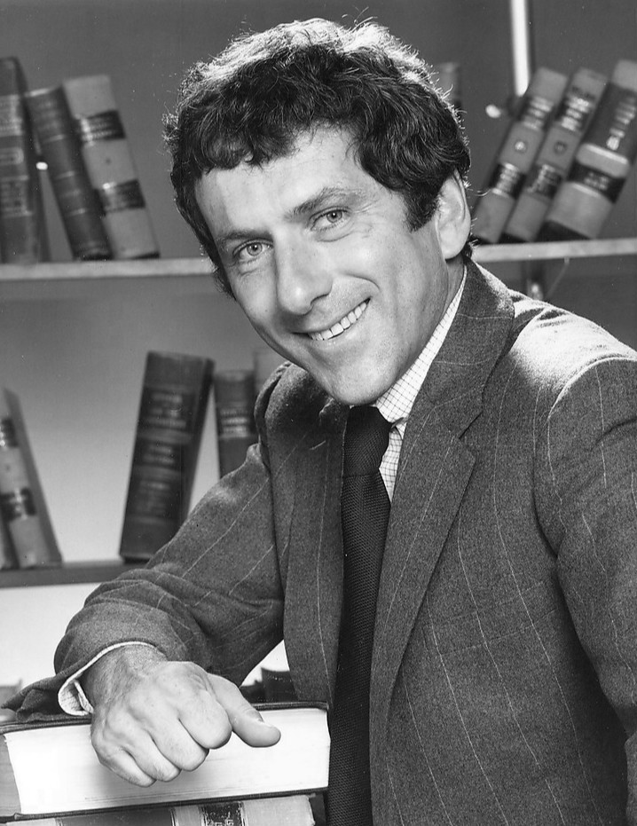 Photo of Barry Newman as Tony Petrocelli from the television program Petrocelli.